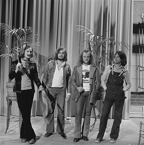 Focus in AVRO's TopPop (Dutch television show) in 1974